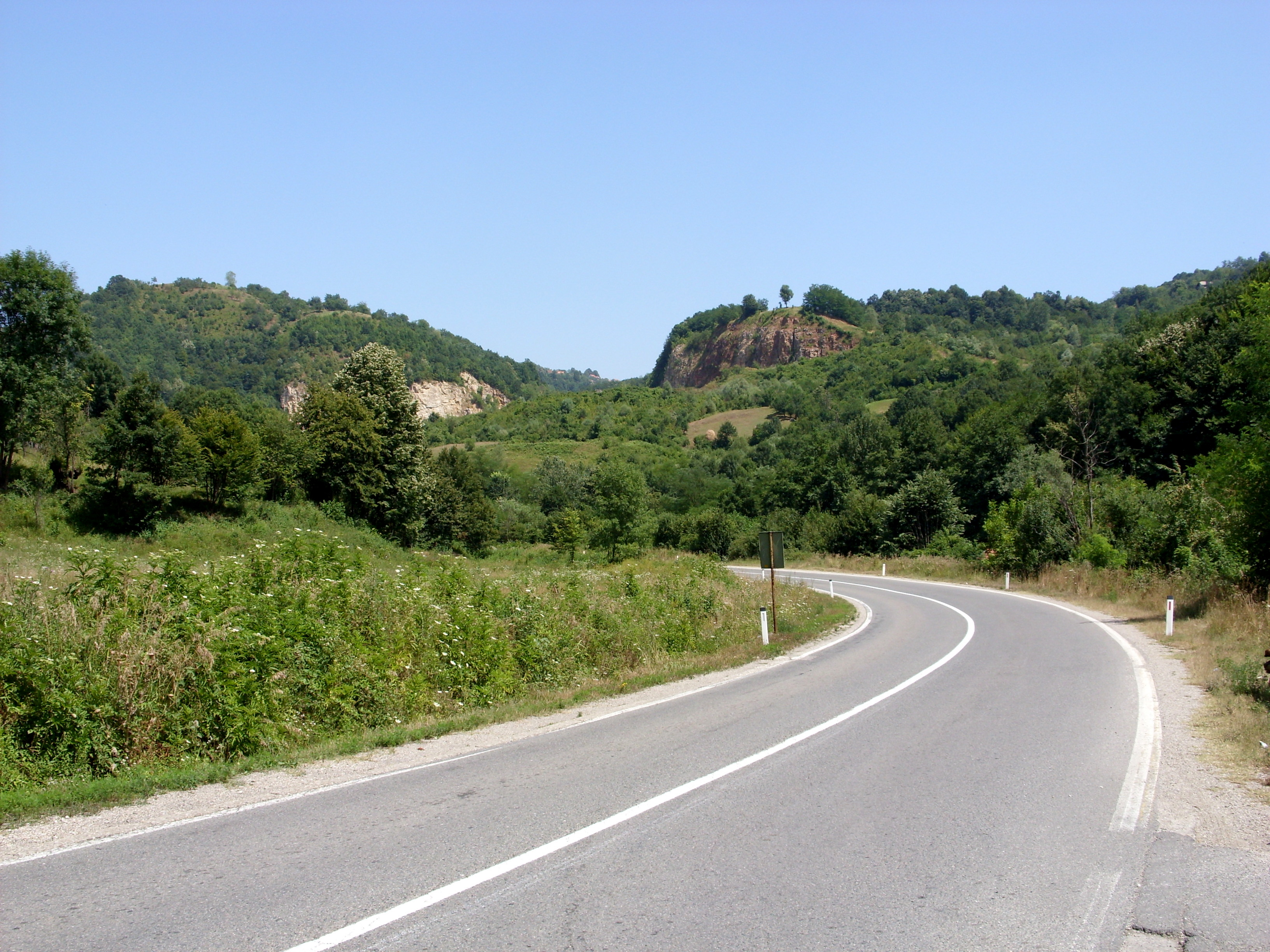 Road M18 between Ugljevik and Priboj, Bosnia Hornjoserbsce: Magistralowa dróha 18 mjez Ugljevikom a Pribojom w Bosniskej